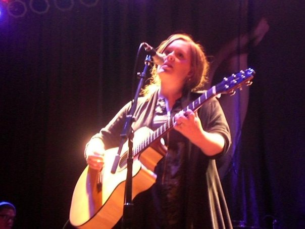 Photo of Adele performing at the House of Blues in Cleveland, OH. 03/21/2009. Photo of Adele performing at the House of Blues in Cleveland, OH. 03/21/2009.